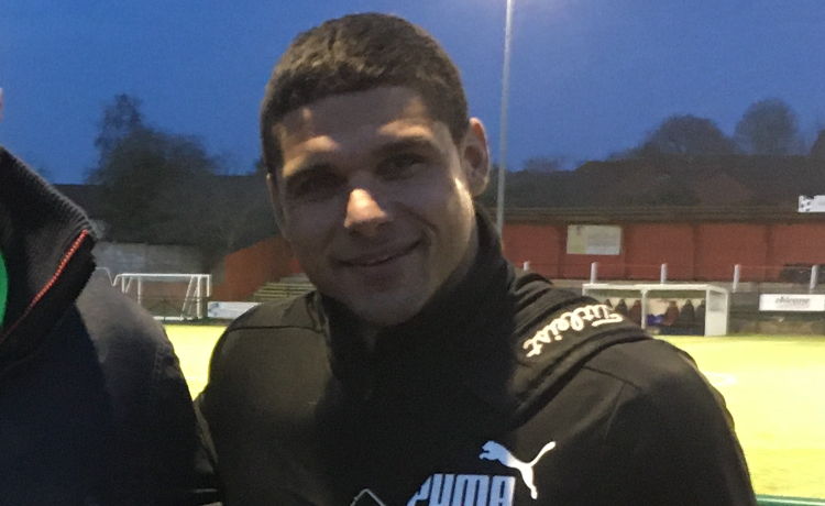 Photo taken by myself of Liam Hearn following the Redditch United Vs. Tamworth game on February 8 2020 at Trico Stadium.